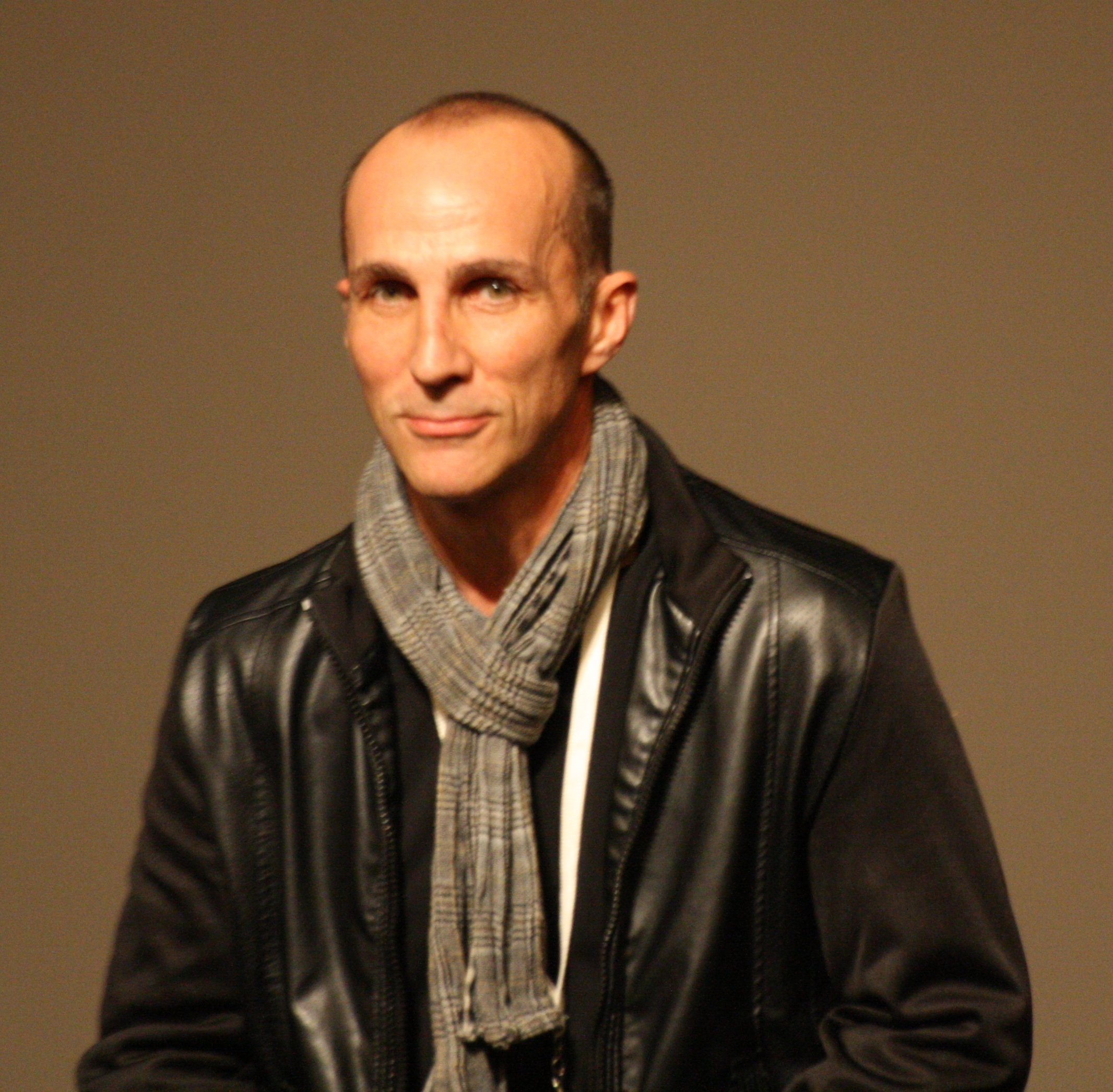 Michael Rogers at the science-fiction convention Utopiales 2011 in Nantes, France.